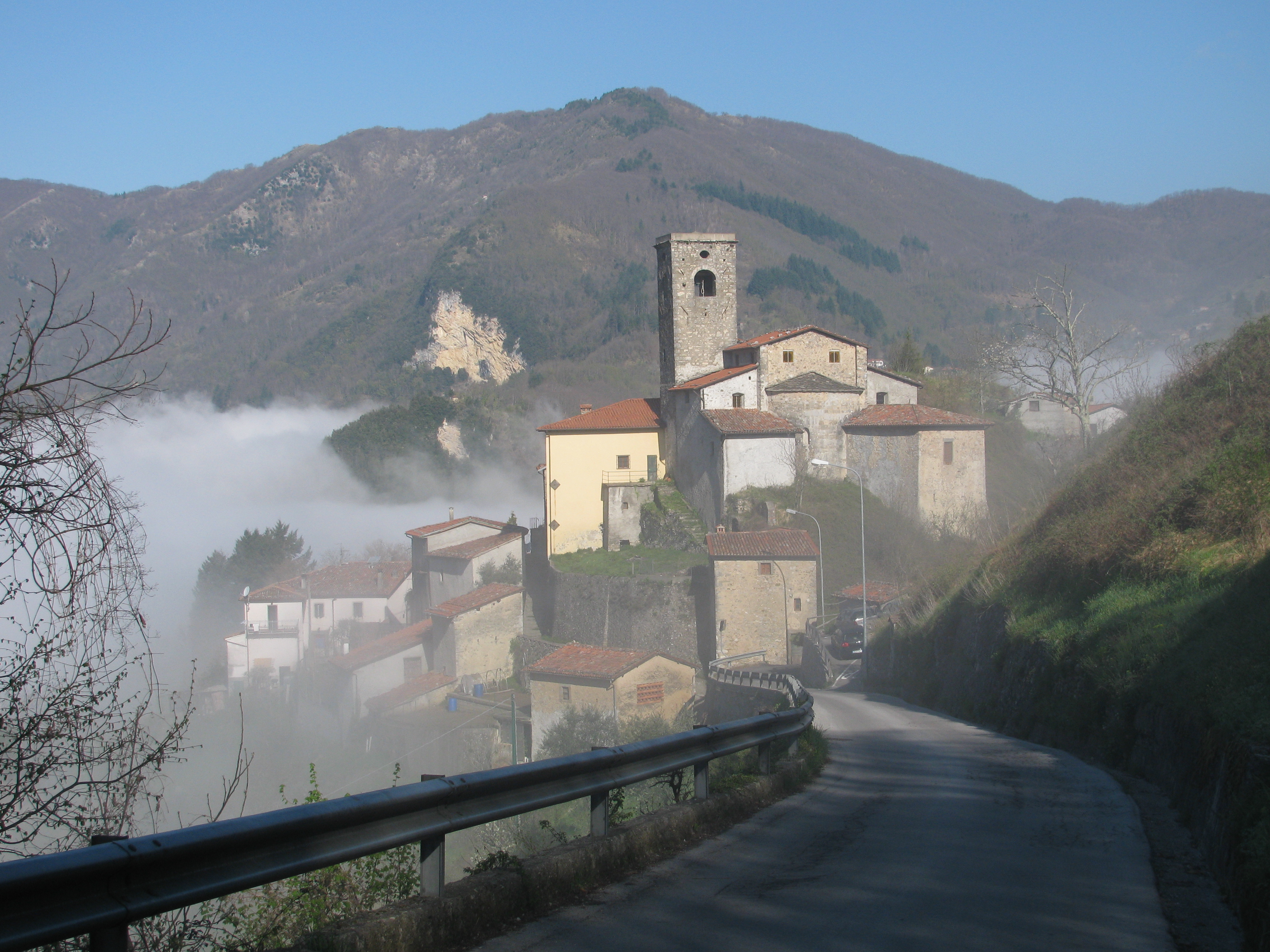 Verni,in Italy